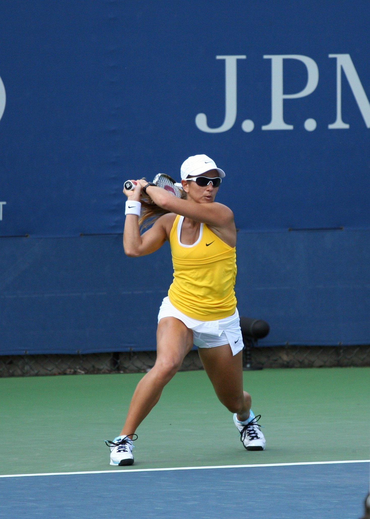 U.S. Open Monday, Aug. 31, 2009